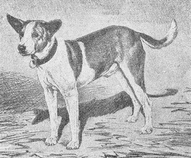 A Congo Terrier (Basenji) from 1932.